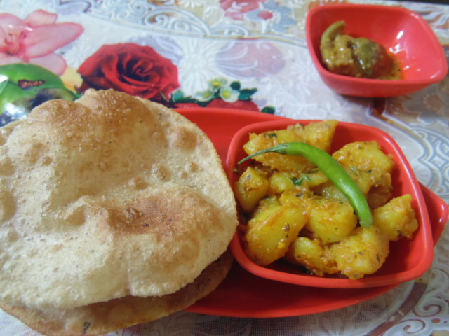 kumaoni aloo puri with mango pickle